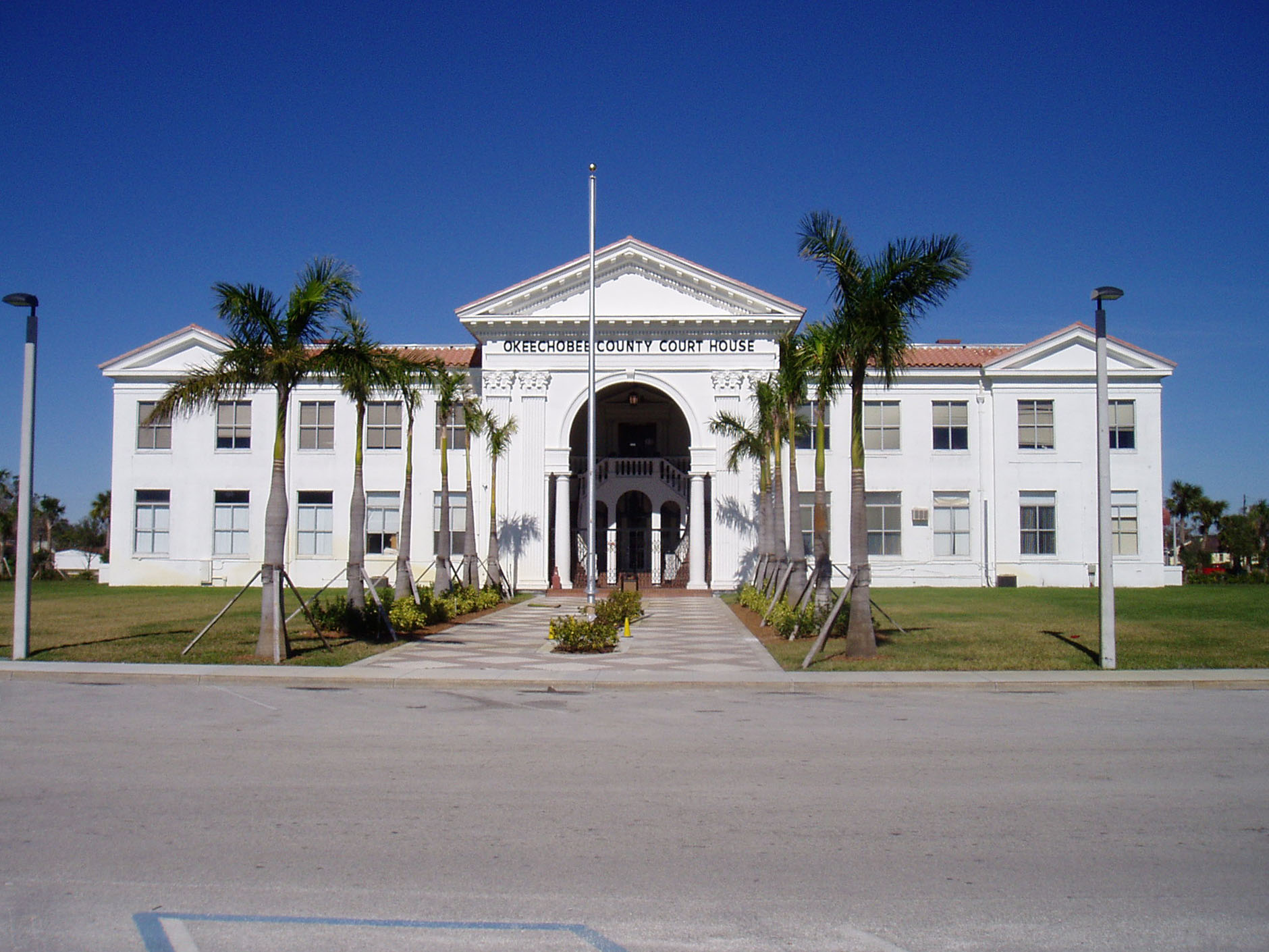 Okeechobee County Courthouse, Okeechobee, Florida, listed in A Guide to Florida's Historic Architecture.